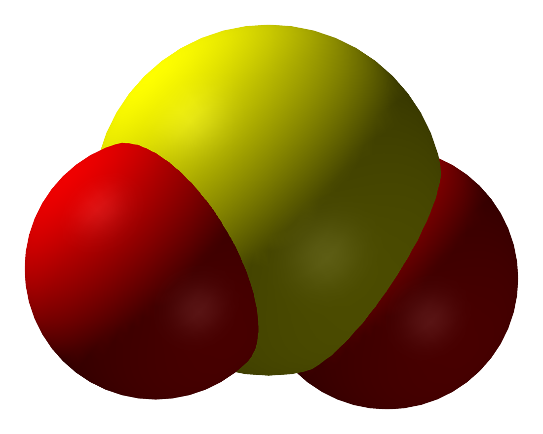 Space-filling model of the sulfur dioxide molecule, SO2